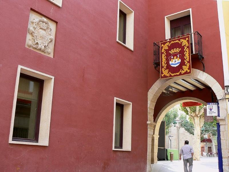 Arco del edificio Histórico del Ayuntamiento de Aspe, visto desde la Avenida de la Constitución. Junto a él, el Escudo de Armas del s. XVII